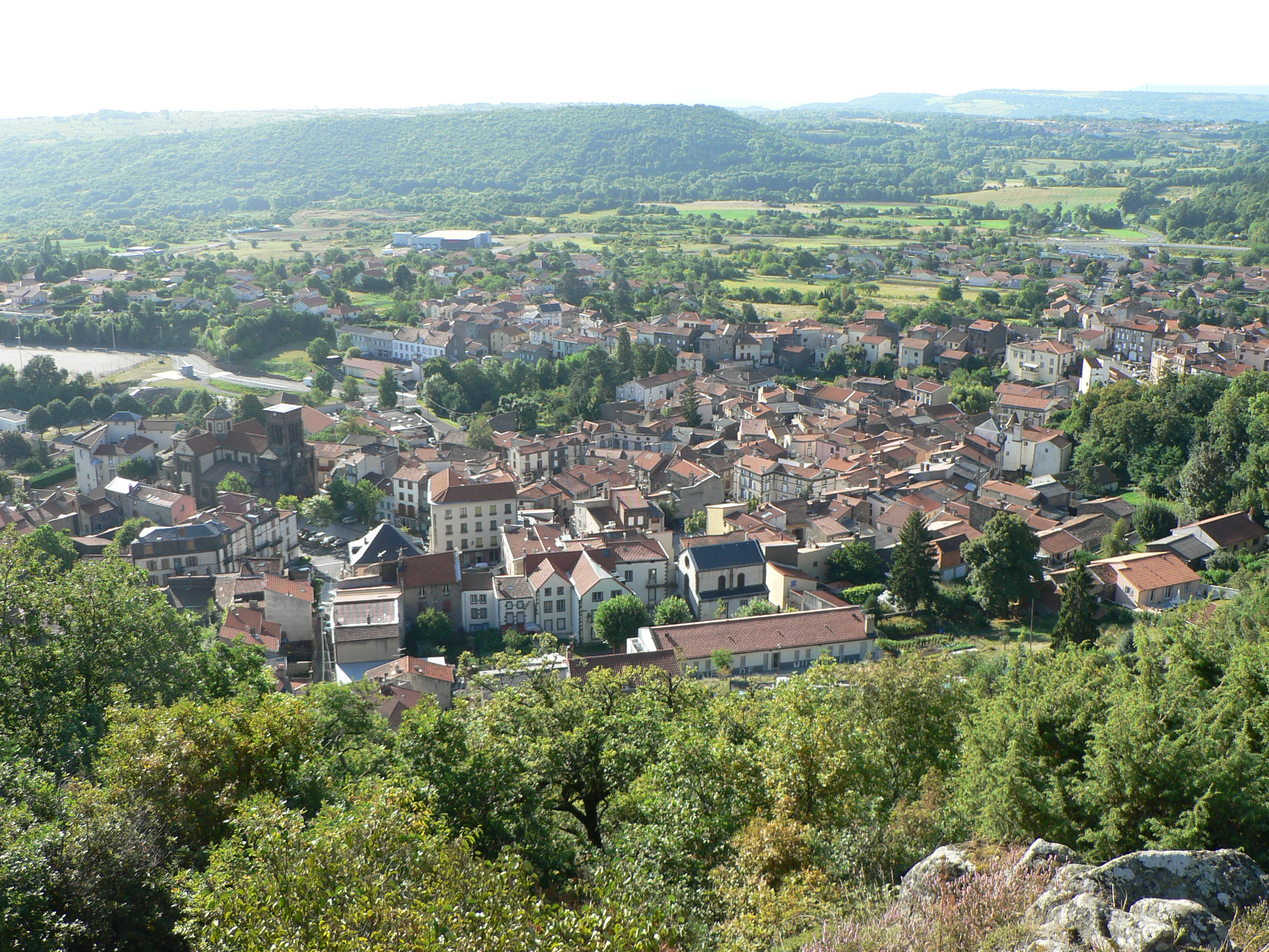 City of Volvic (Puy-de-Dôme, France)